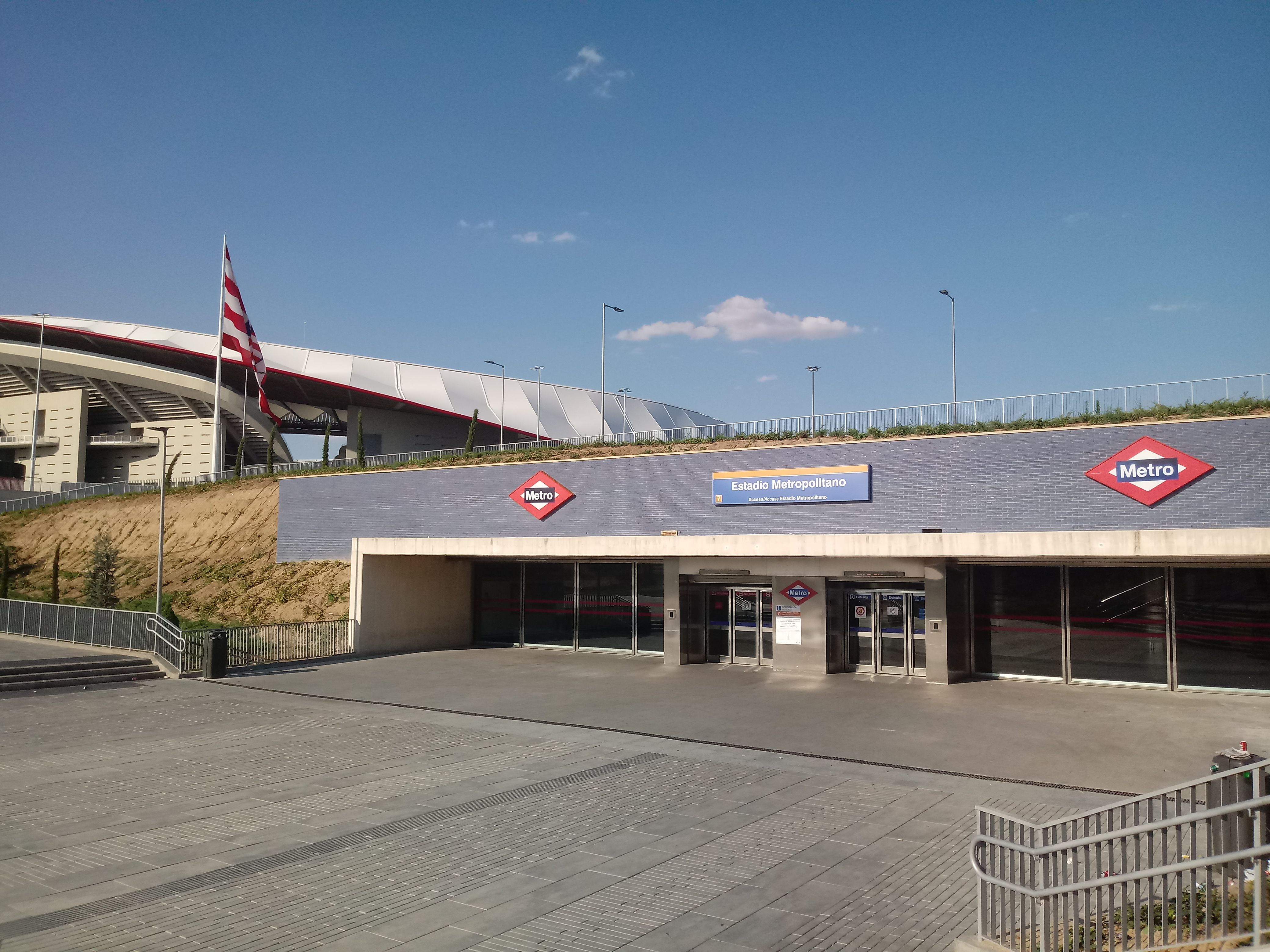 Capacious entrance to Estadio Metropolitano station (L7), in the Madrid metro